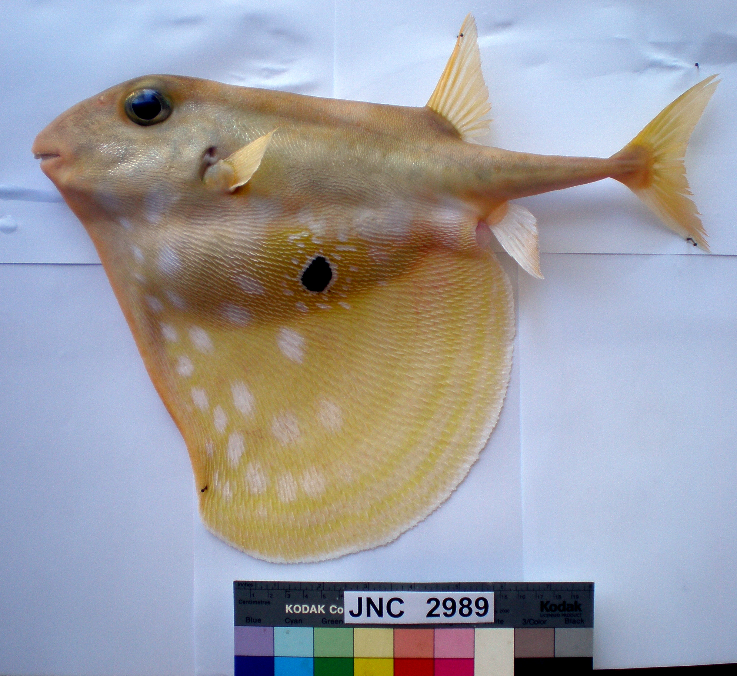 Triodon macropterus. Photograph on white background with colour chart. Locality: Off Récif Toombo, off Nouméa, New Caledonia, depth 200-350 m, 22°34' 565S, 166°27'636E. Fork Length 361 mm, Weight 689 grams. Date 2009-07-02.